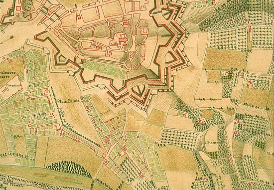 Map of Geneva (detail) from Micheli du Crest, dated 1730